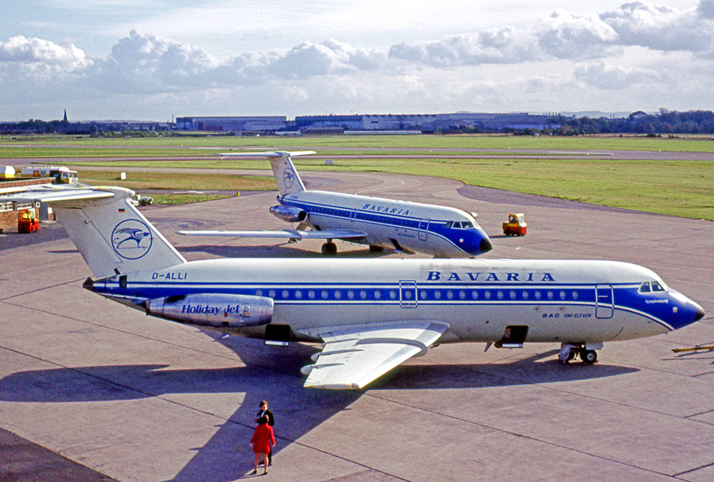 BAC 1-11 Series 413 D-ALLI of Bavaria at Liverpool Airport in 1969